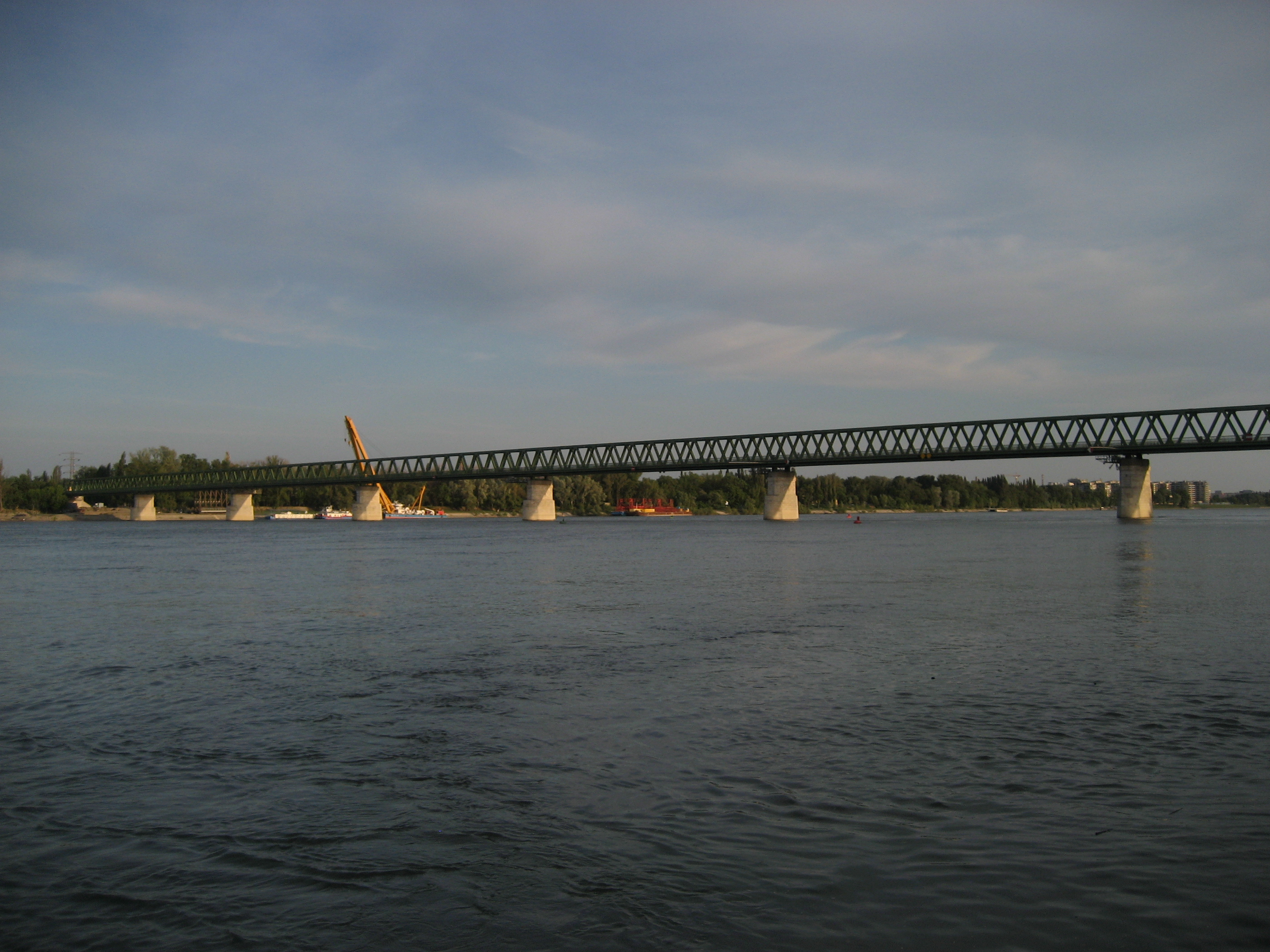 Újpesti vasúti híd ("Ujpest railway bridge", Budapest, Hungary)